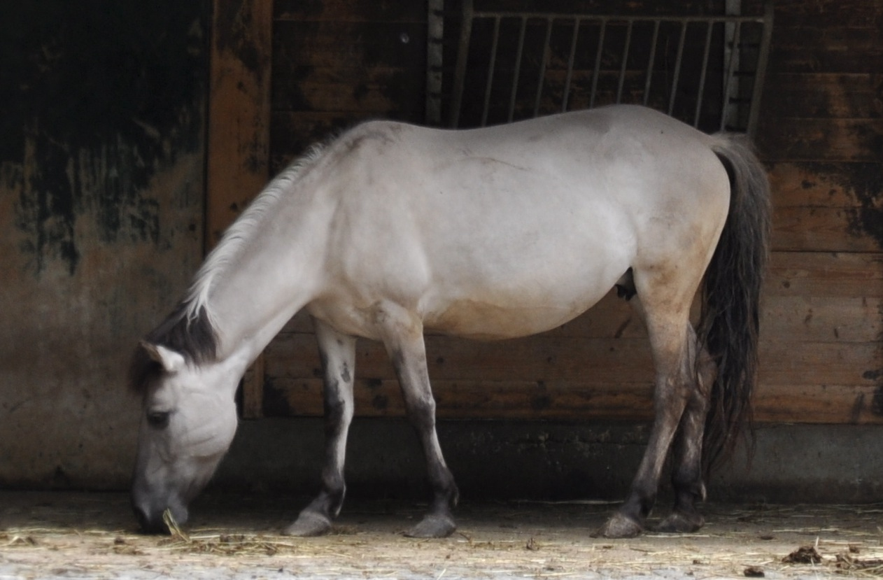 Heck horse in munich.